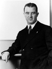 Senator Albert Chandler source